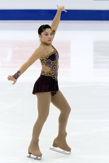 Mericien Venzon at the 2011 Four Continents Championships.